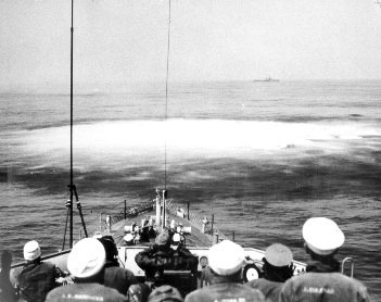 Off Point Judith, Rhode Island. A pattern of Hedgehog depth charges fired by the US Coast Guard-manned frigate USS Moberly explodes underwater. This sank the German submarine U-853. The Moberly operated as a unit of the Atlantic Fleet. See File:U-853-sinking1.jpg for the circular pattern made by the depth charges striking the water before sinking.